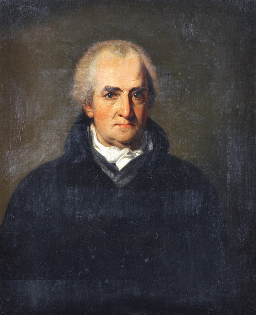 Portrait of James Penny (died 1799), Oil on canvas, 76 x 63cm, by Thomas Hargreaves (1774-1847)